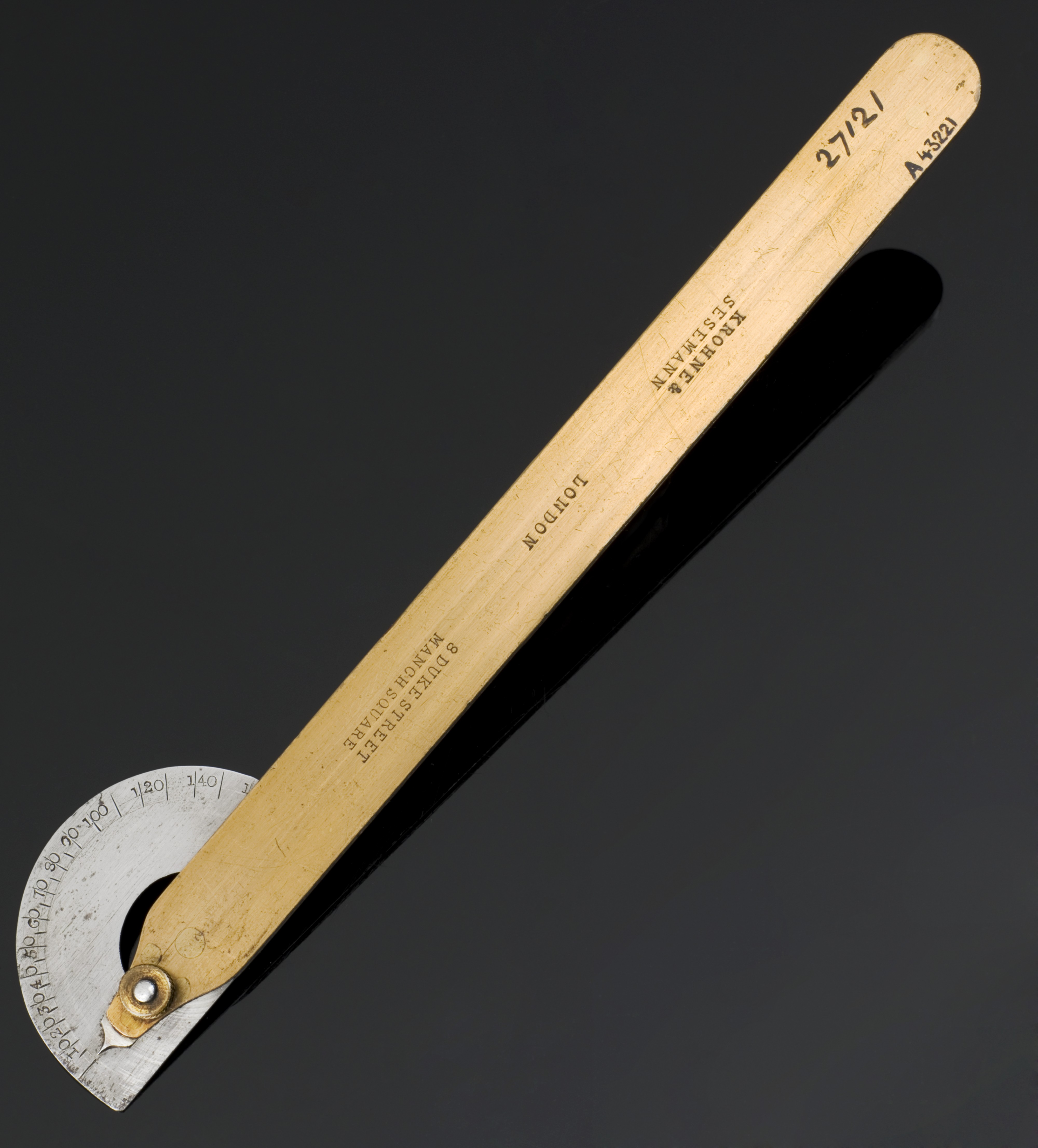 A goniometer is used to measure angles of the body such as joint movements. In the 1800s, new instruments were made and new standards applied to measurement of the human body (anthropometry). Data was collected in attempts to classify people according to their physical appearance, which was mistakenly believed to be linked to intellectual abilities. The instrument was made by Krohne & Sesemann, surgical instrument makers based in London. Krohne invented this type of goniometer. The device belonged to Sir Henry Morris (1844-1926), a British surgeon. A set of Morris’s instruments was presented to the Wellcome collections on his death. maker: Krohne and Sesemann Place made: London, Greater London, England, United Kingdom Medical Photographic Library Keywords: Anthropometry; goniometer